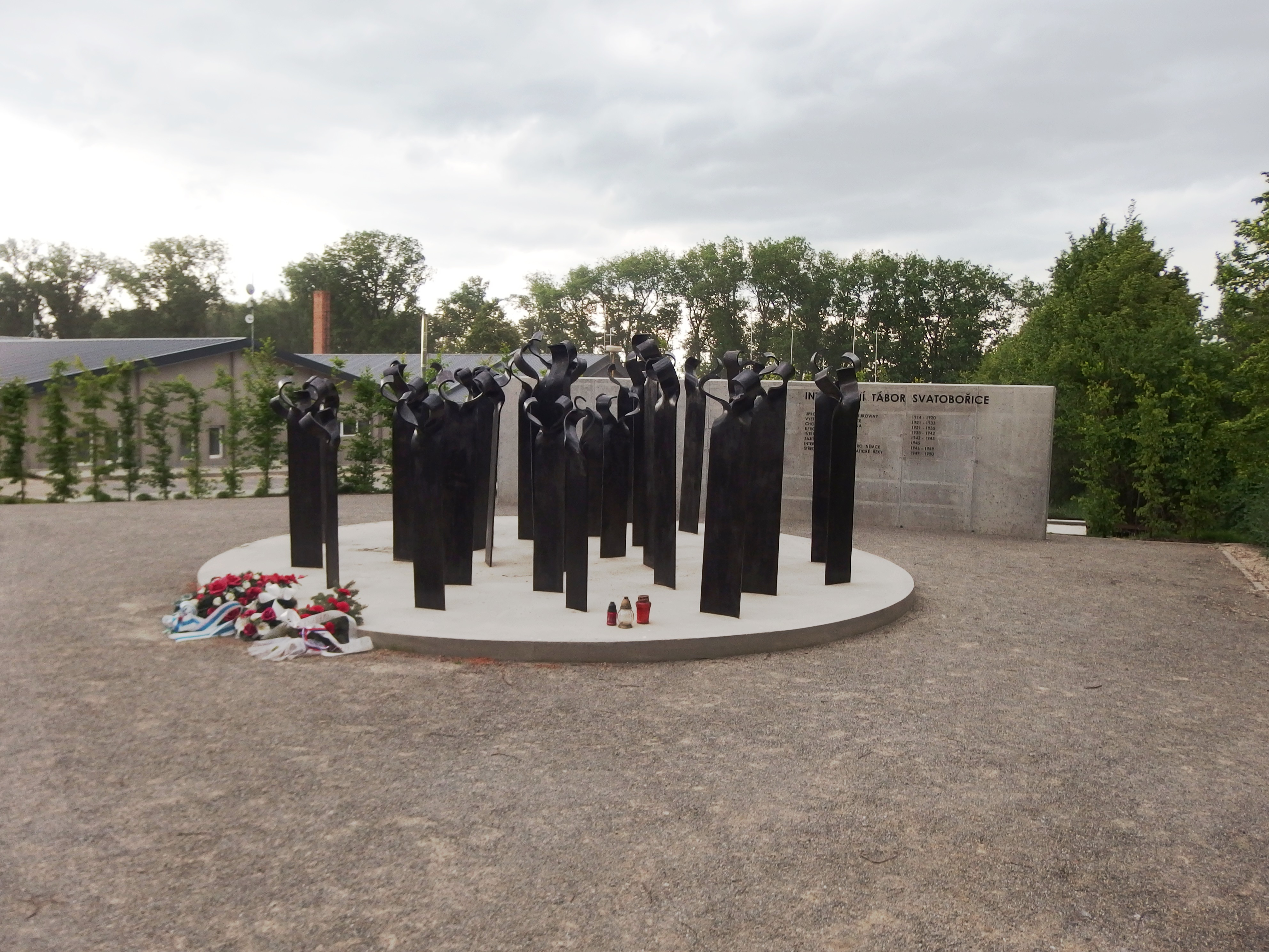 Svatobořice-Mistřín, Hodonín District, Czech Republic. part Svatobořice. Museum of a internment camp.